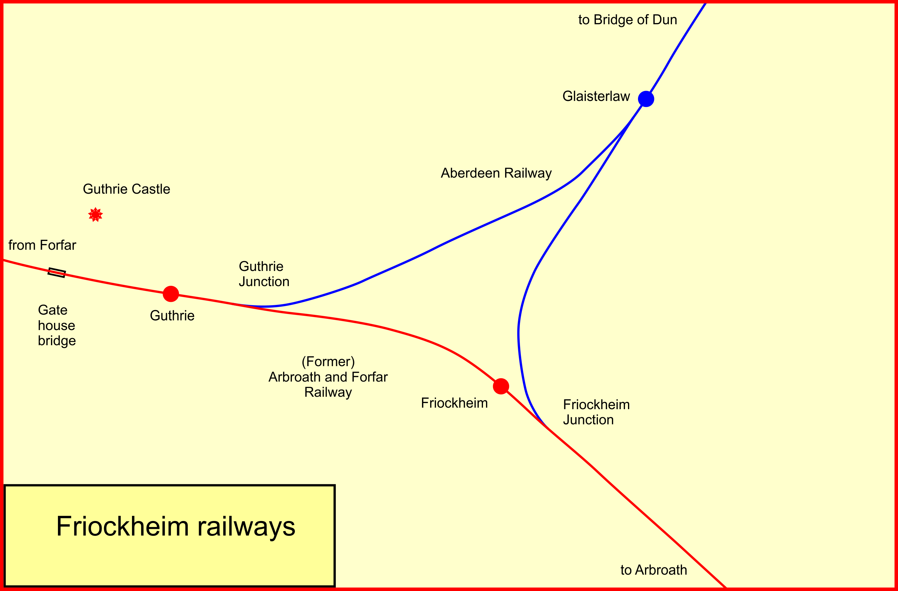 The railways of Friockheim, Scotland